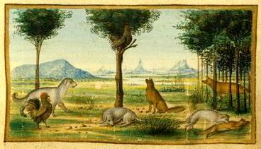 The fable of the cock, the dog and the fox from the Medici Aesop, a Greek manuscript from c.1490 Canis, Gallus et Vulpes